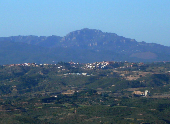 Ullastrell (Vallès Occidental) with Sant Llorenç del Munt hills, as seen from Serra de l'Ataix, Martorell (Baix Llobregat, Catalonia